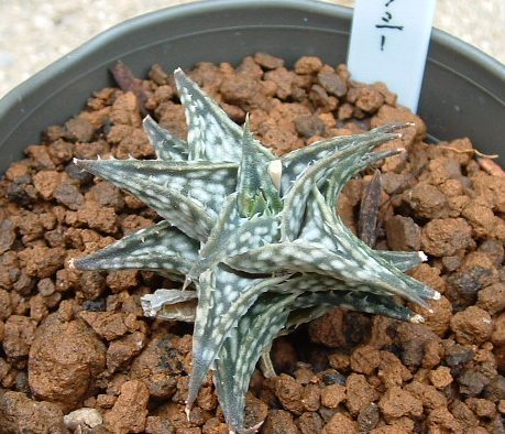 The smallest aloe in the world.